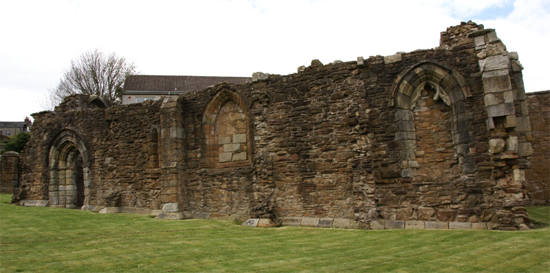 Maybole Collegiate Church, Maybole, South Ayrshire, Scotland